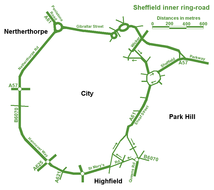 Author: Gregory Deryckère Source: Own work Date: 25th September 2006